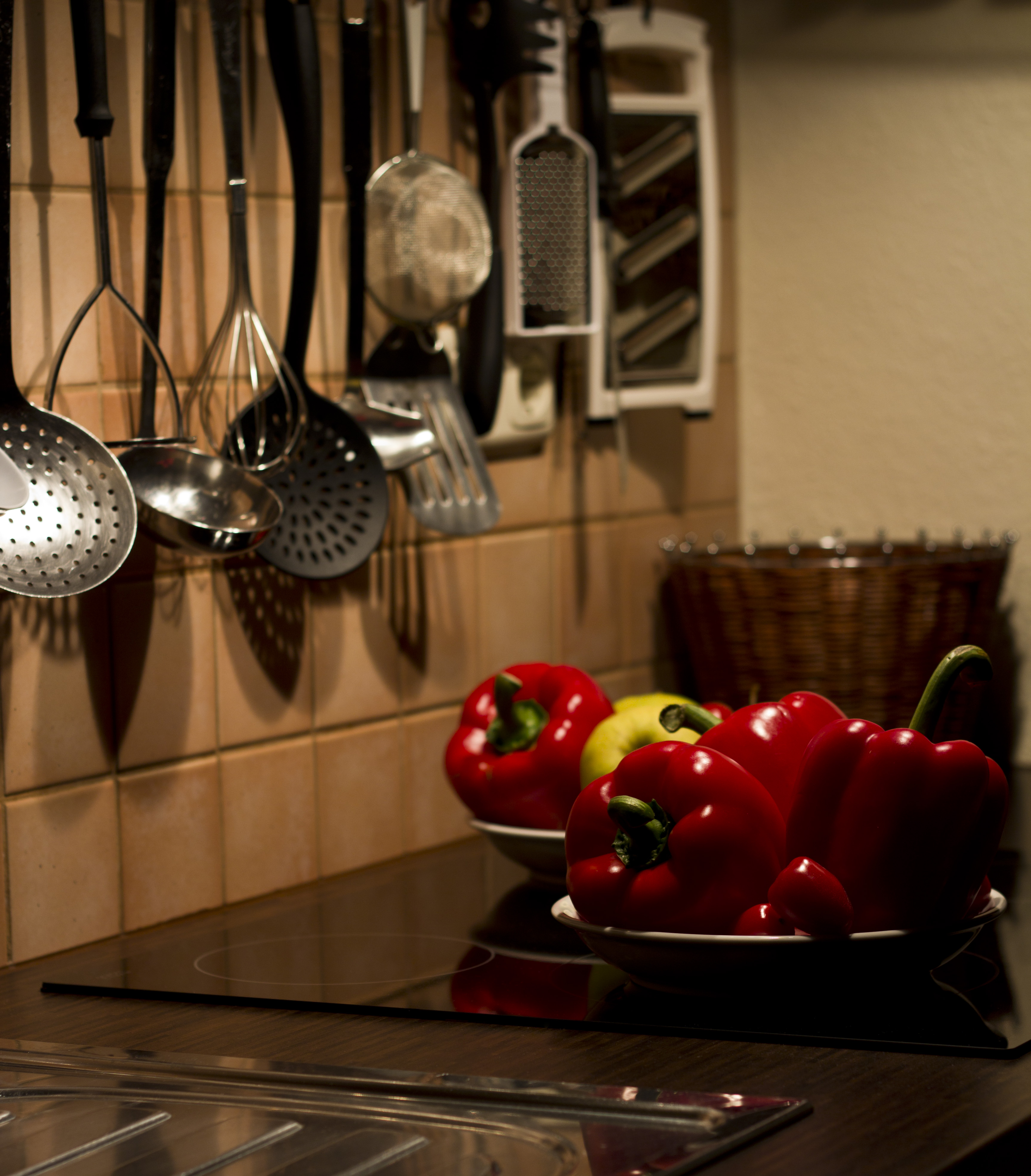 The use of Peppers as a Food and a Decoration within a Kitchen.